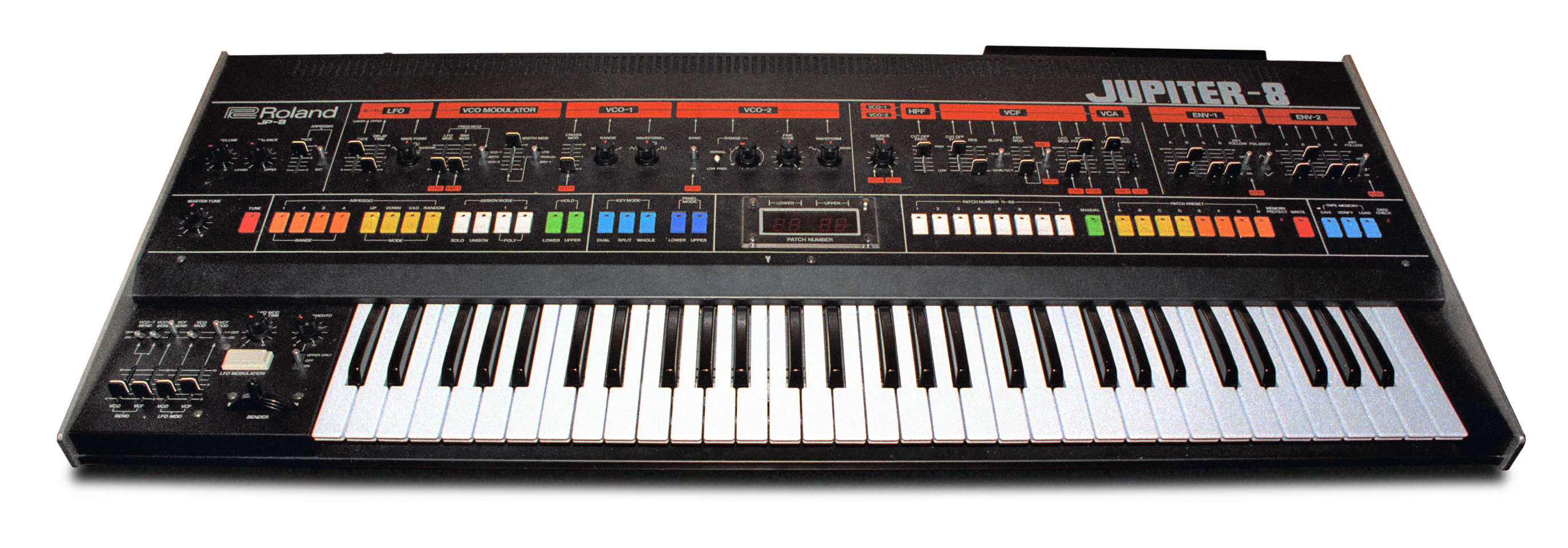 Roland Jupiter-8 synthesizer. Original description:- "This metal-clad eight-voice monstrosity was extremely powerful for its time, but it was an unreliable beast, crashing spontaneously, one time in the middle of a gig. I shipped it to Roland in California twice for repairs, but the crashes continued. I paid $4600 for it back around 1981, I think. I finally gave it away to my teenage next-door neighbor, who grew up to be a professional musician, serving as Mandy Moore's music director for one of her tours."